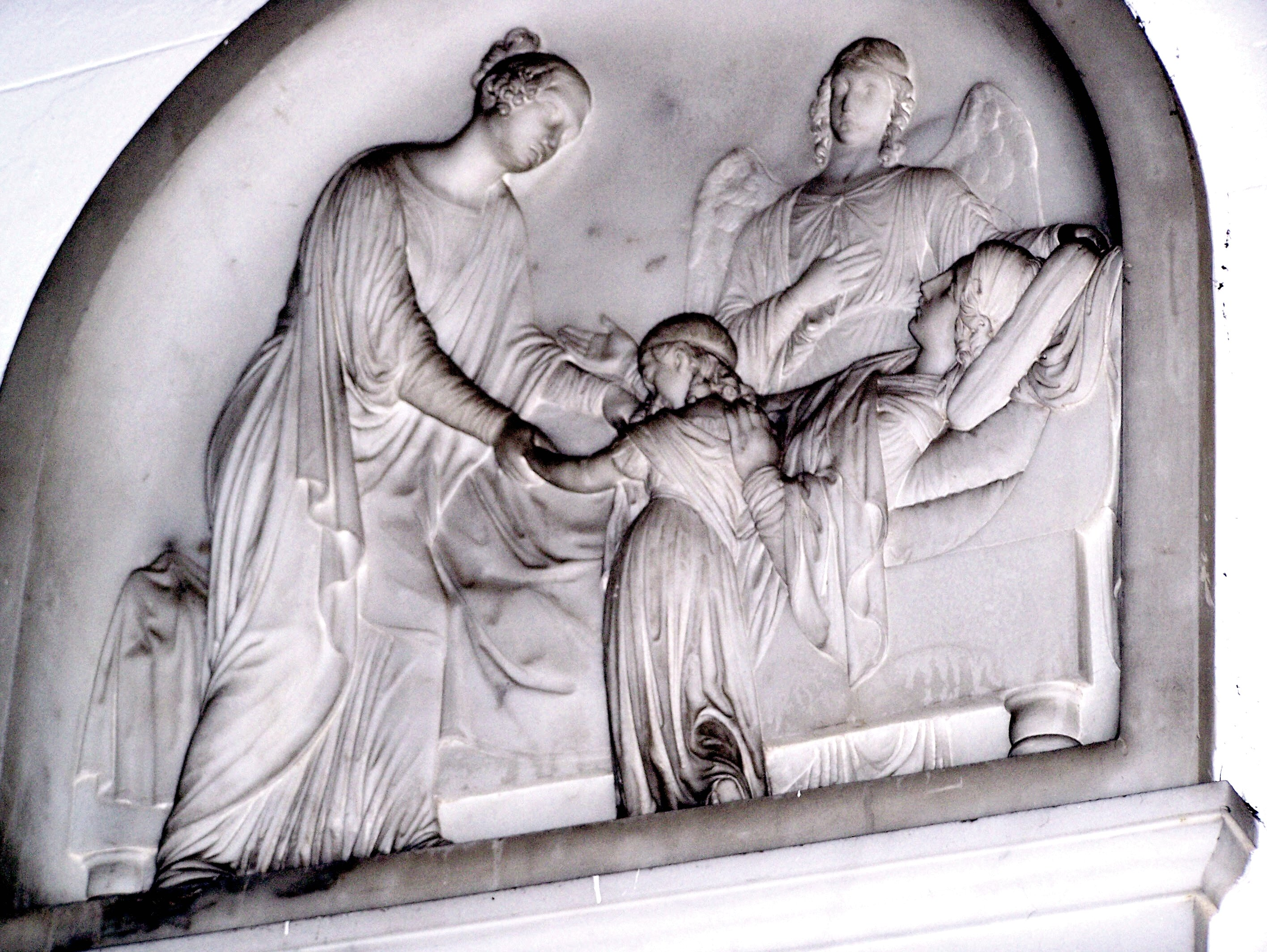 Georgiana Hare Naylor died in Lausanne, Switzerland on Easter Sunday 1806, - shows her dying and giving her daughter Anna Maria Clementina (who "was taken away before she could fulfill the bright promise of her childhood) into the care of her sister Anna Maria who became their "second mother" with an angel looking on. She also had 4 sons Francis, Marcus, Augustus the diarist rector of Alton Barnes and Julius, rector of Hurstomonceux) Georgiana Hare Naylor was the fourth daughter of Jonathan Shipley, Bishop of St Asaph and Anna Maria, daughter of George Mordaunt, She eloped with Francis Hare Naylor son of Robert Hare of Hurstmonceux Place. Robert (canon of Winchester) and builder of Hurstmonciux Place from the stones of the castle at the time of his second marriage. The second wife hoped to pass this to her children but the house was built on entailed land which could not be diverted from Francis the rightful heir. The monument sculpted by a danish artist, pupil of Thorwaldsen was erected 28 years after her death.